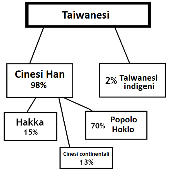 Chart showing ethnic demographics of the Republic of China (Taiwan) (Italian language version). Created by me and released under the GFDL.